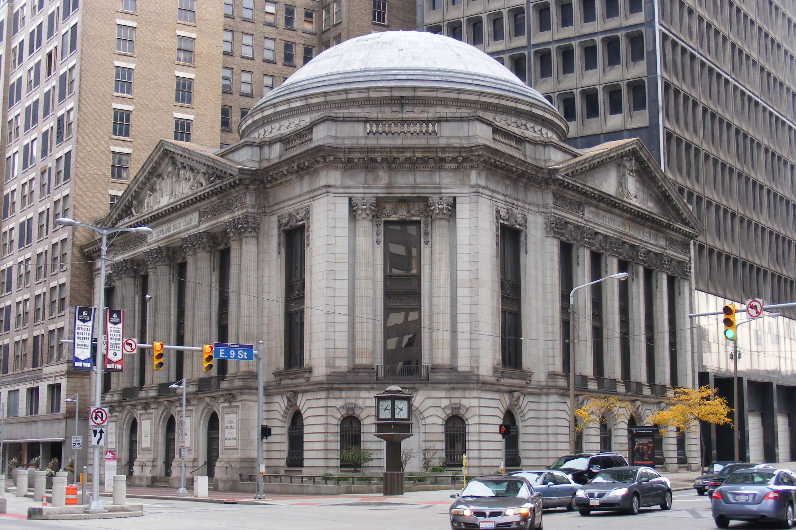 The former Cleveland Trust bank building in downtown Cleveland, Ohio